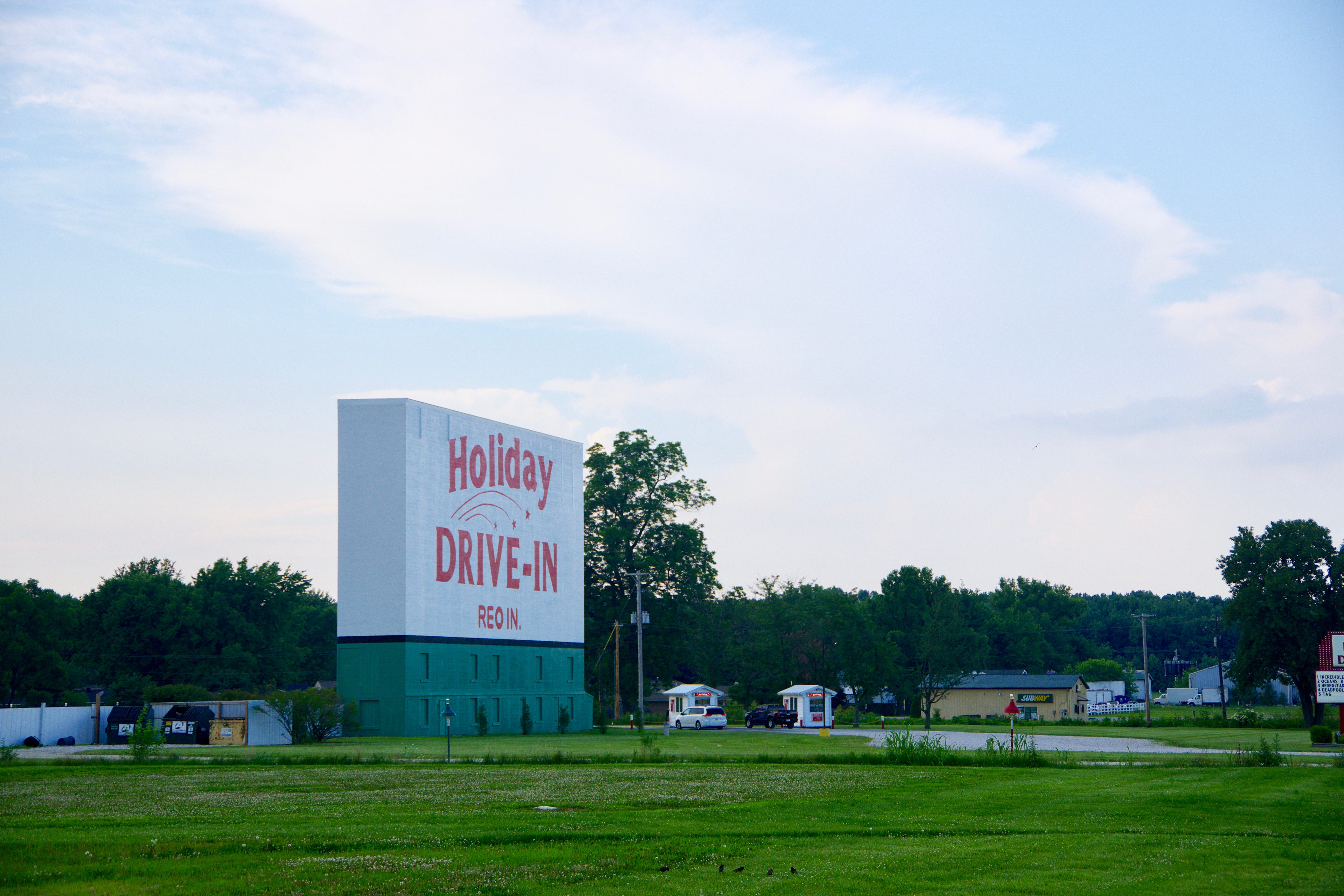 The Holiday Drive-In, a drive-in theater in Reo, Indiana, United States.